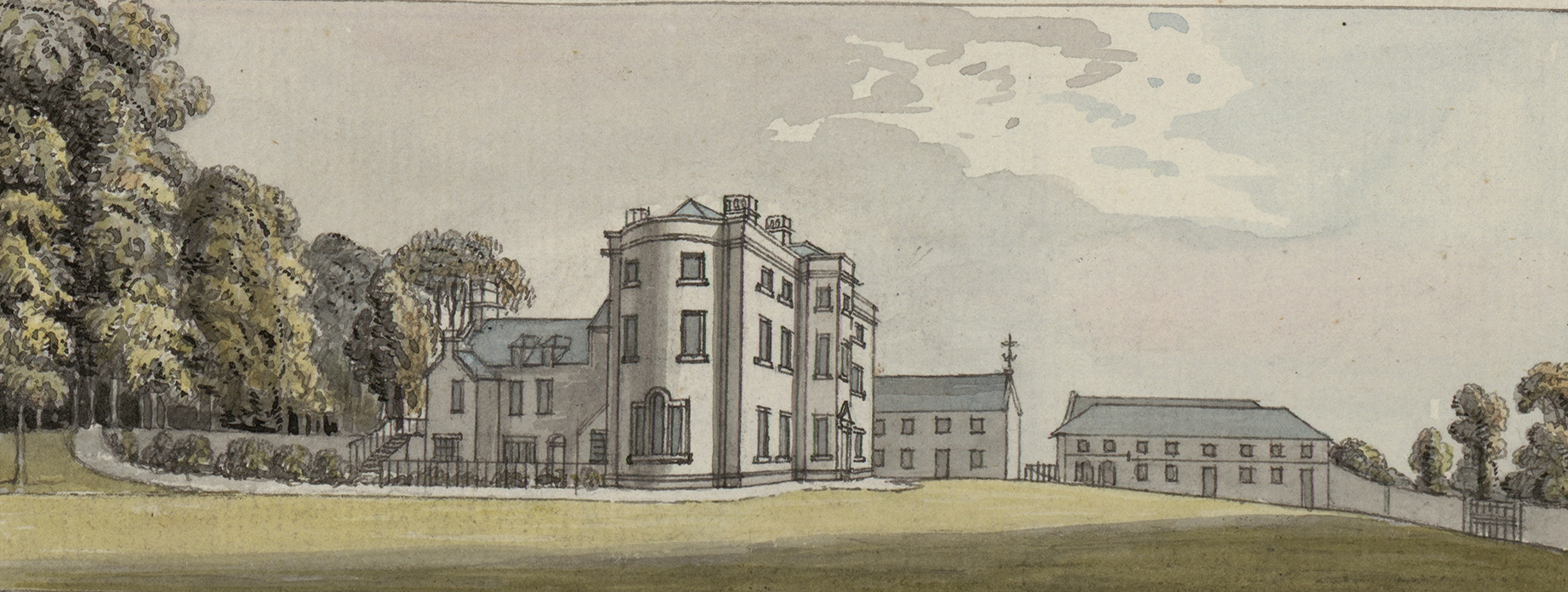 An image from a set of 8 extra-illustrated volumes of A tour in Wales by Thomas Pennant (1726-1798) that chronicle the three journeys he made through Wales between 1773 and 1776. These volumes are unique because they were compiled for Pennant's own library at Downing. This edition was produced in 1781. The volumes include a number of original drawings by Moses Griffiths, Ingleby and other well known artists of the period. Thomas Pennant (1726-1798)